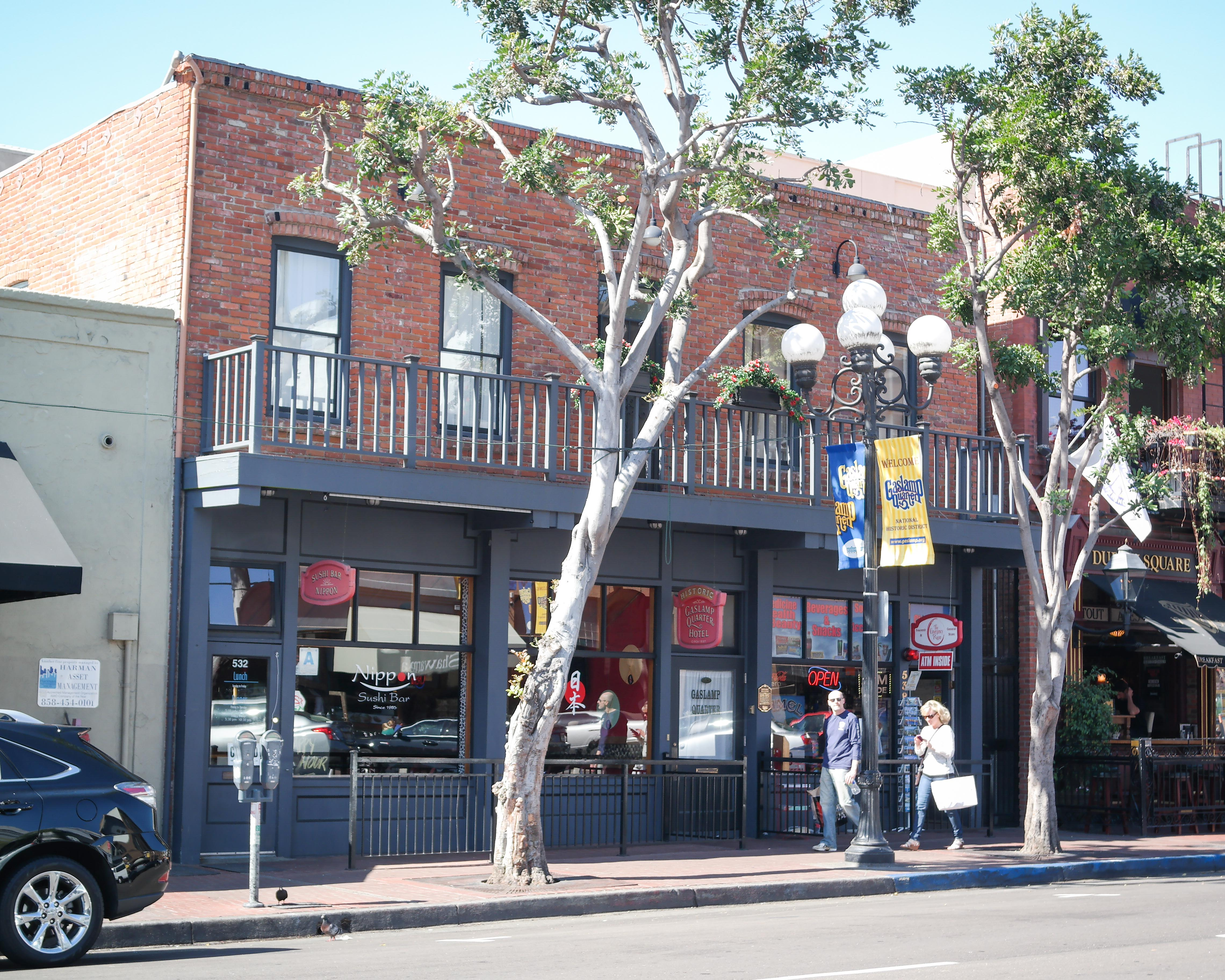 Historic Building Survey plaque: "8 Cotheret Building, 1903. Throughout the Gaslamp, this is the only building with an original second story balcony. The upstairs has operated as rented rooms under the names of the Cotheret, Ardmore, and Gaslamp Hotel. The Canary Cottage, run by San Diego's most notorious madam, Ida Bailey, was behind this structure. The narrow alley to the right provided Bailey's patrons access to the cottage and to the Pan Tan Gambling House."